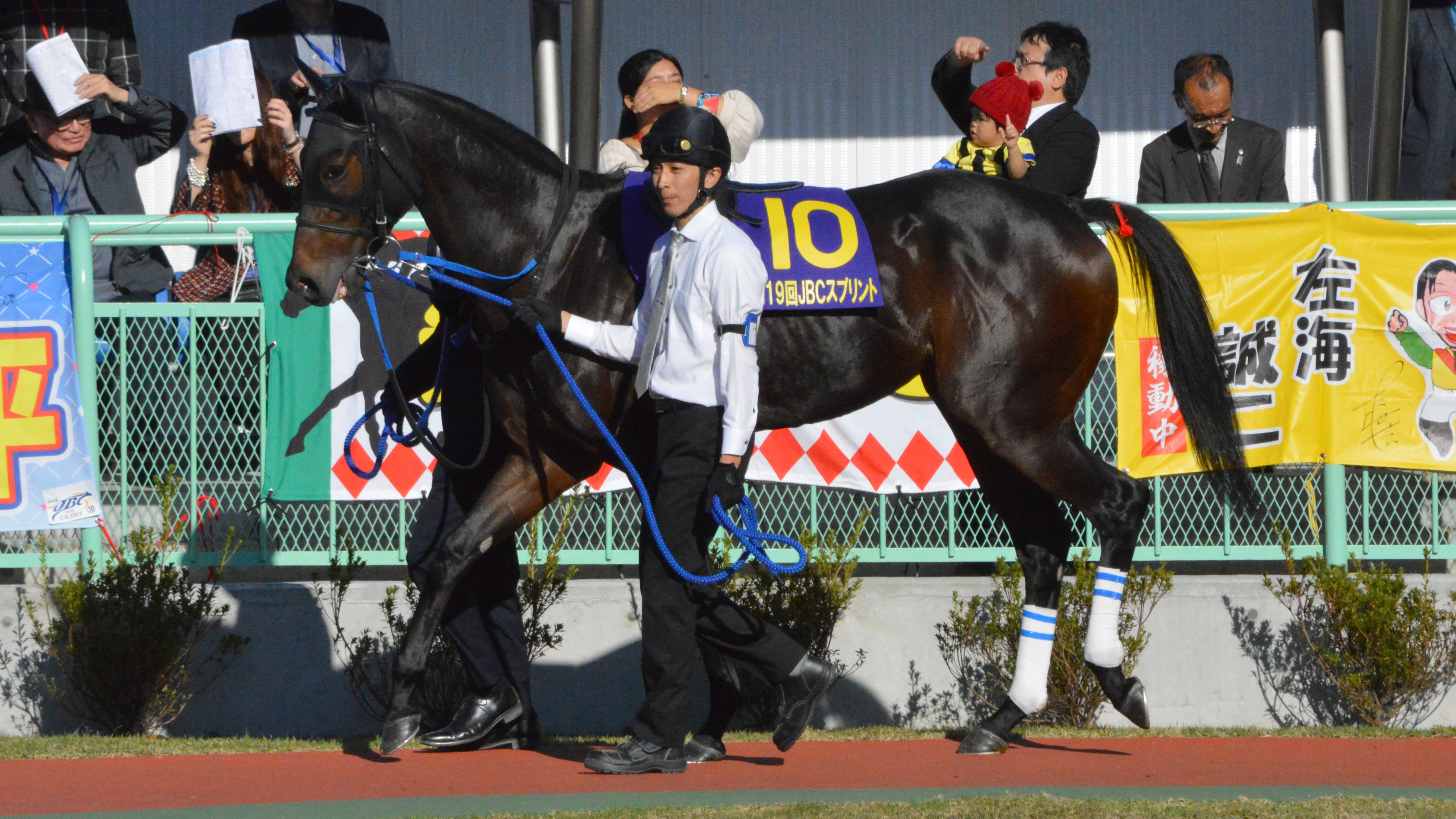 Japanese race horse Copano Kicking at Urawa racecourse.